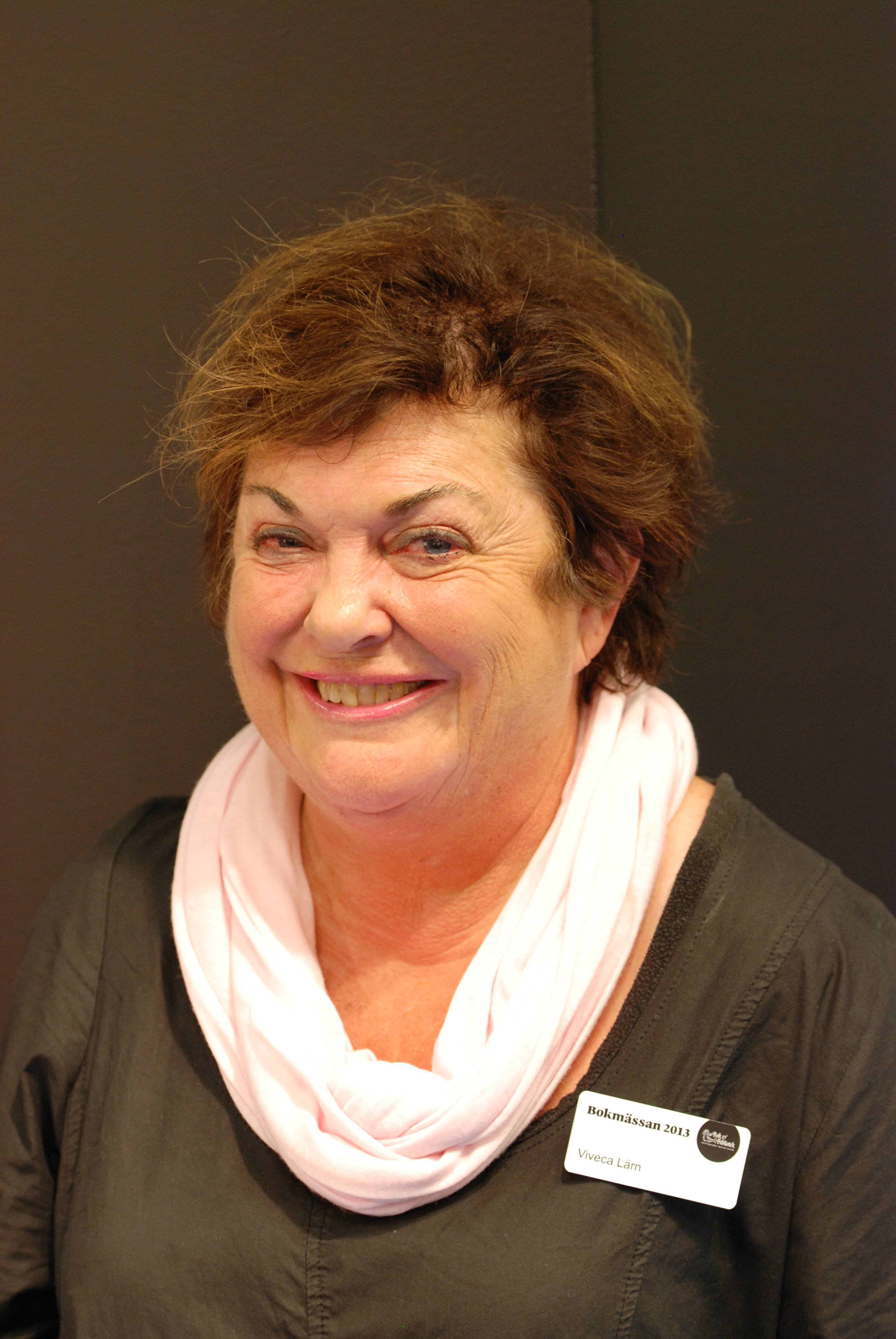 The Swedish writer and journalist Viveca Lärn at Göteborg Book Fair 2013.